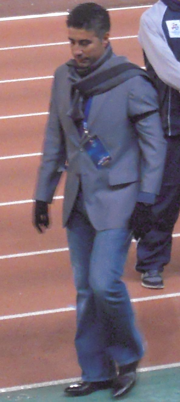 Alexandre Gallo from Al Ain (2011 ACL)